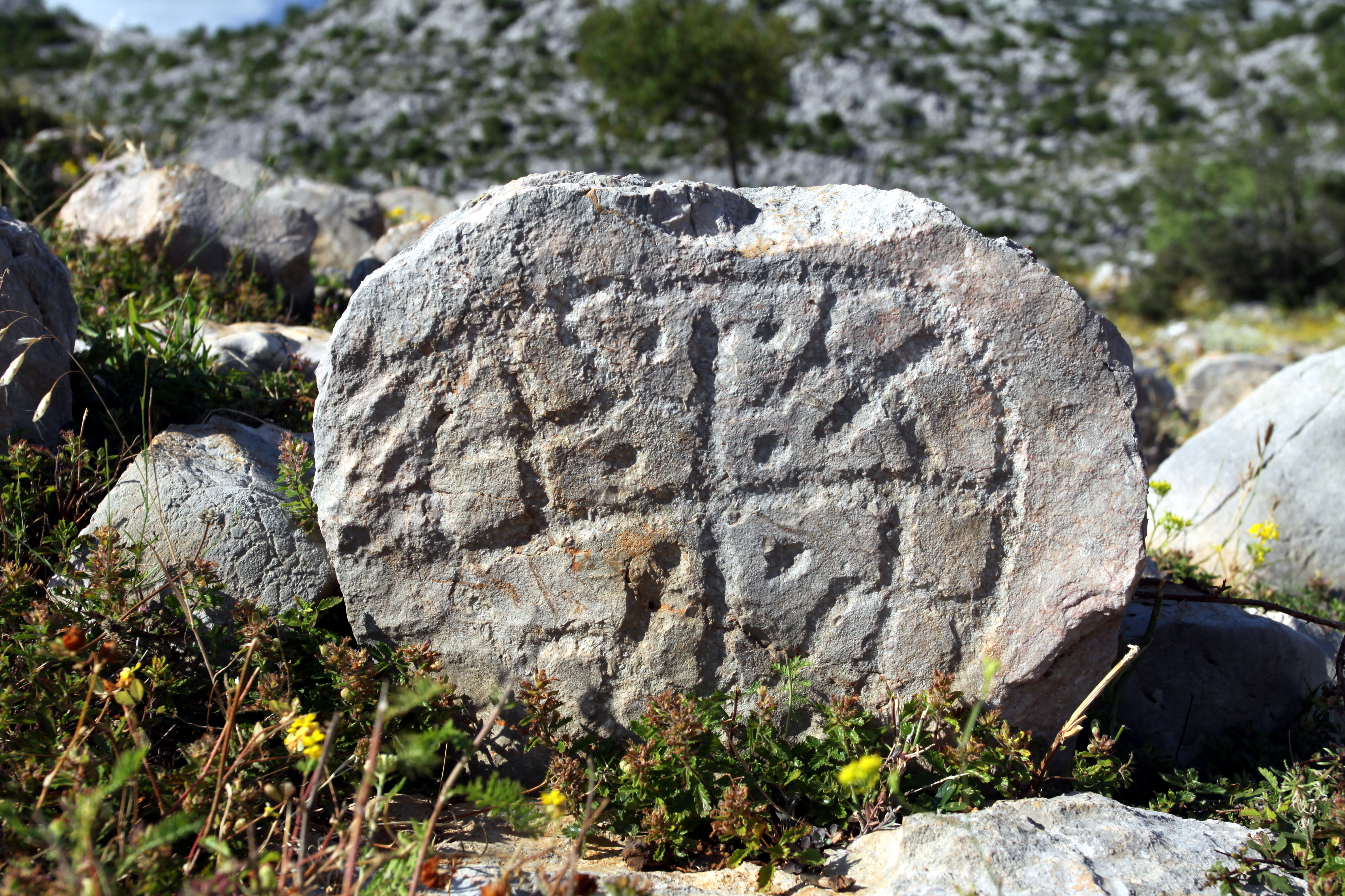 Mirila near Starigrad-Paklenica village close to Zadar, Croatia - Google Maps - Google Earth